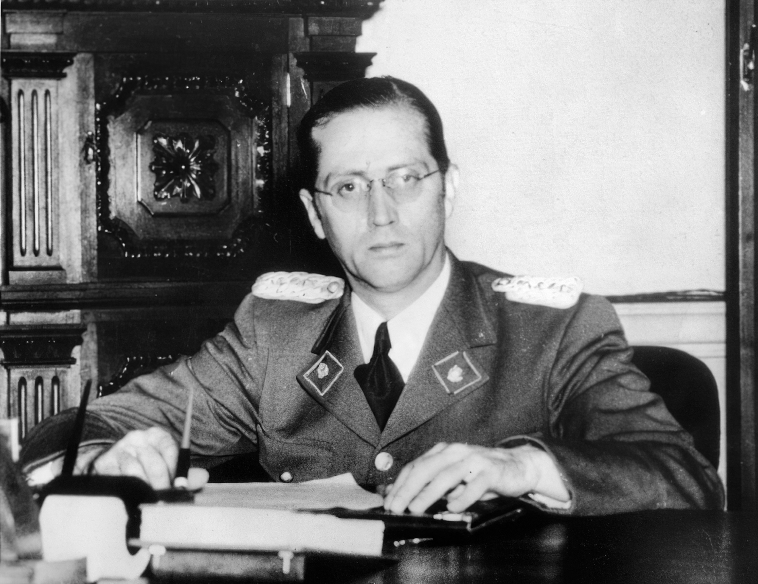 Photo of Carlos Delgado Chalbaud in 1949. (del) (cur) 03:28, 13 December 2007 . . Router1 (Talk